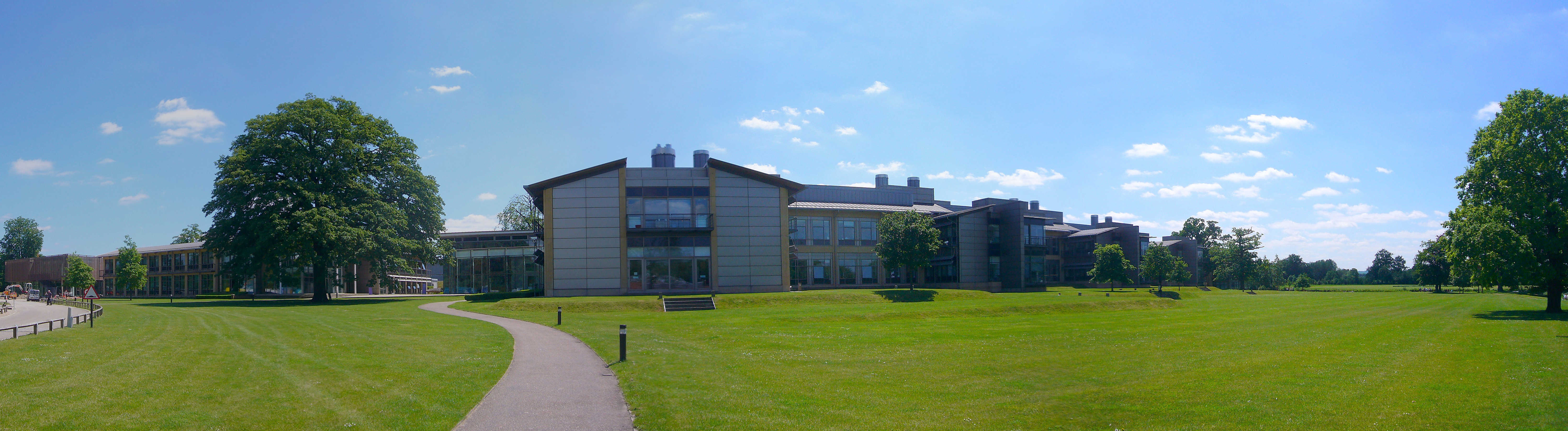 Panorama image of the EBI (left) and Sulston Laboratories (right) of the Sanger Institute on the Genome campus in Cambridgeshire, England.